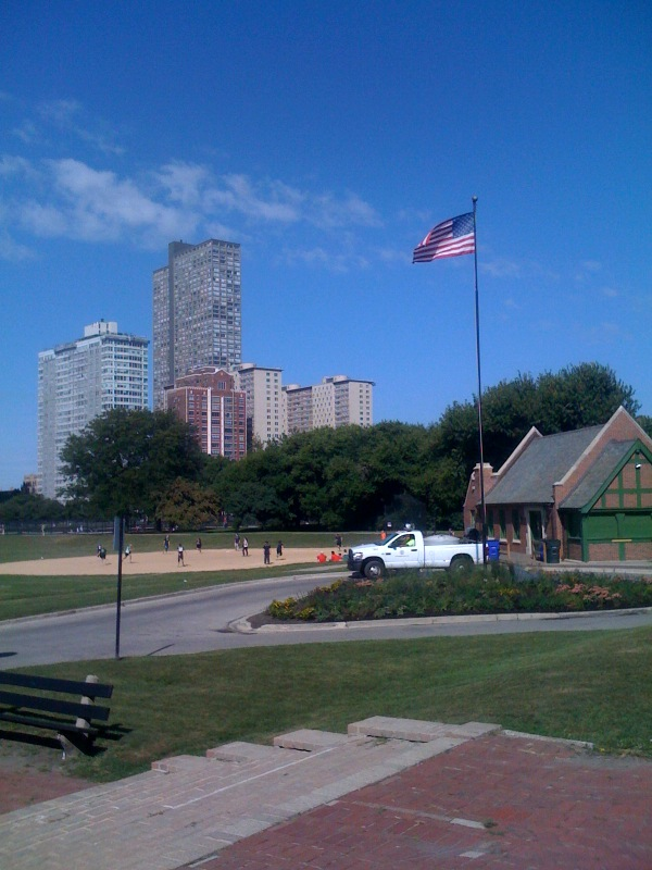 This photo is of Park Place taken from Lincoln Park near Irving Park Road